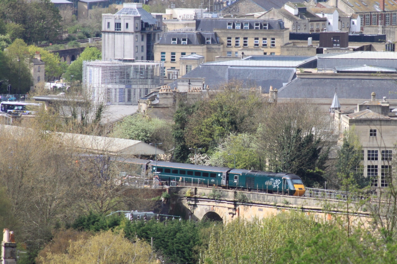 A Great Western Railway train for London pulls out of Bath Spa station and onto Dolemeads Viaduct behind power car 43187.